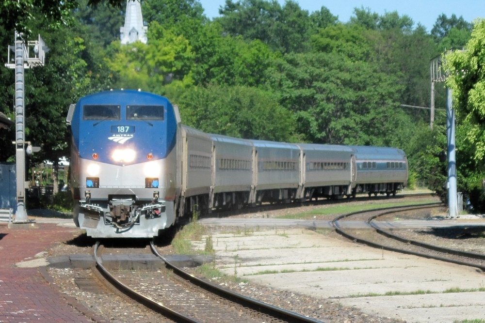 Amtrak Missouri River Runner train#313 pulling into Kirkwood Missouri Amtrak Station